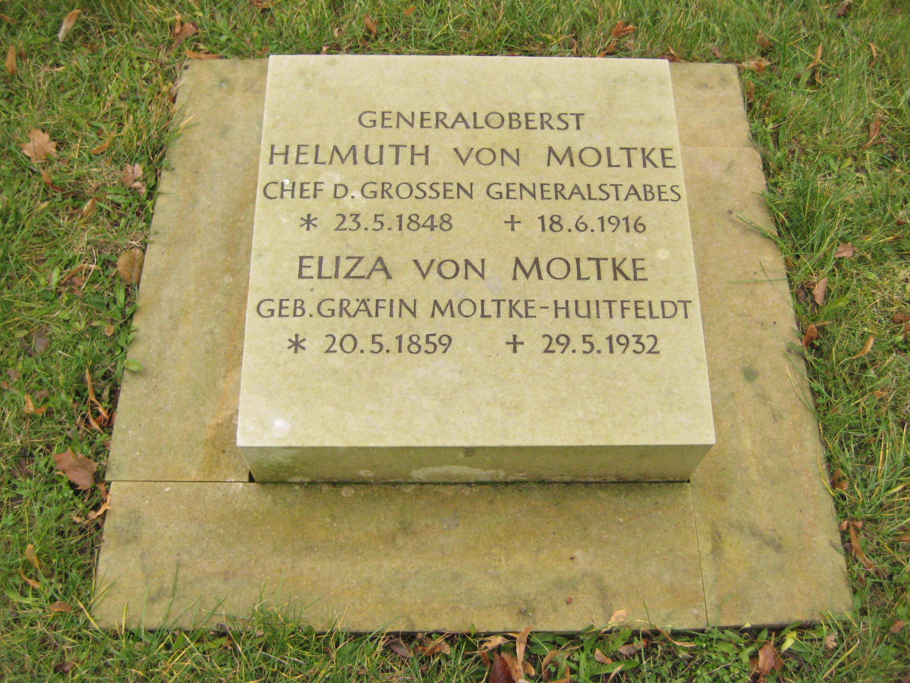 grave of Helmuth von Moltke, the Younger (1848-1916) at Invalidenfriedhof cemetery in Berlin; replacement stone from 2007